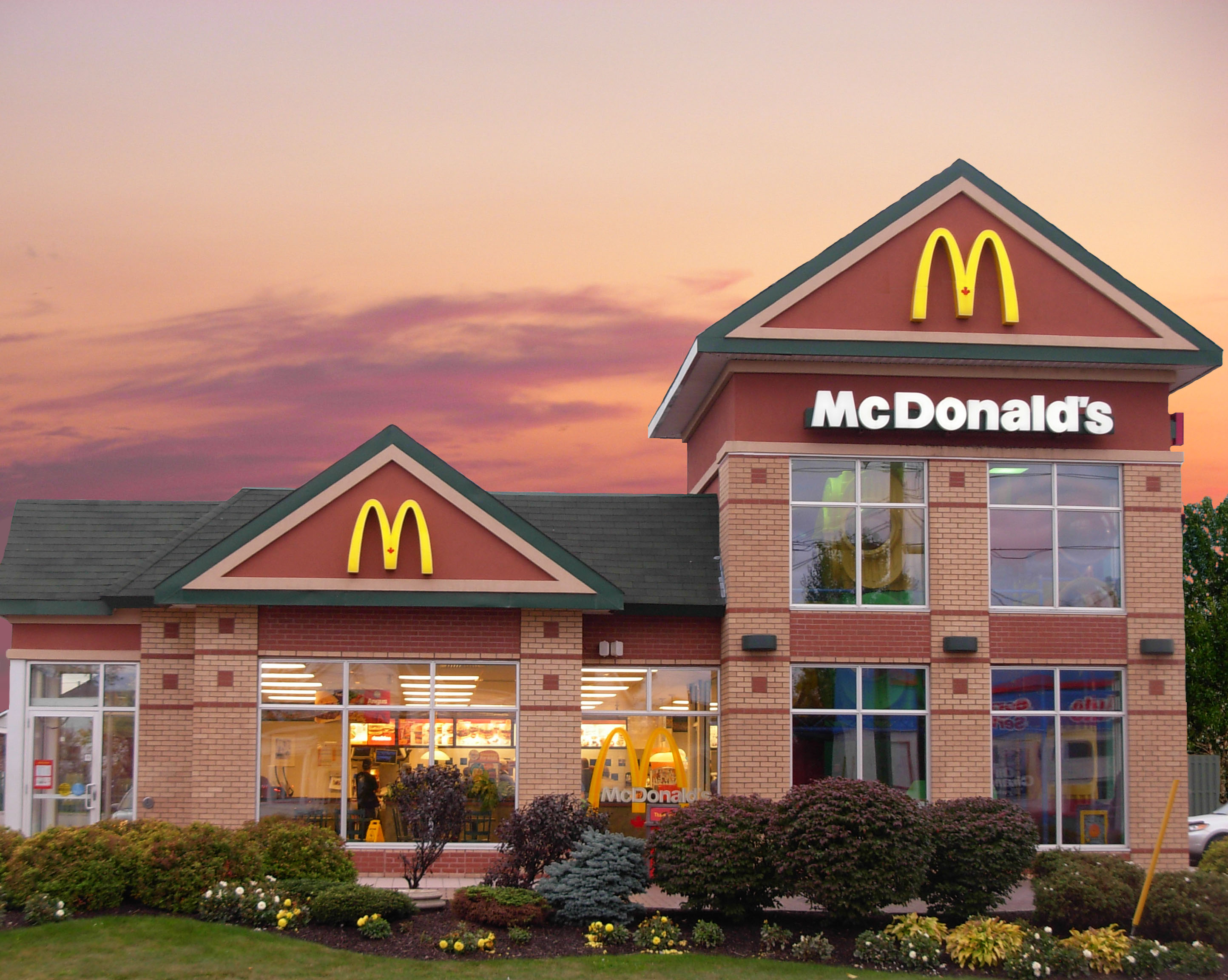 A McDonald's location in Moncton (mountain road). I took the picture and touched it up in Photoshop CS3 myself.